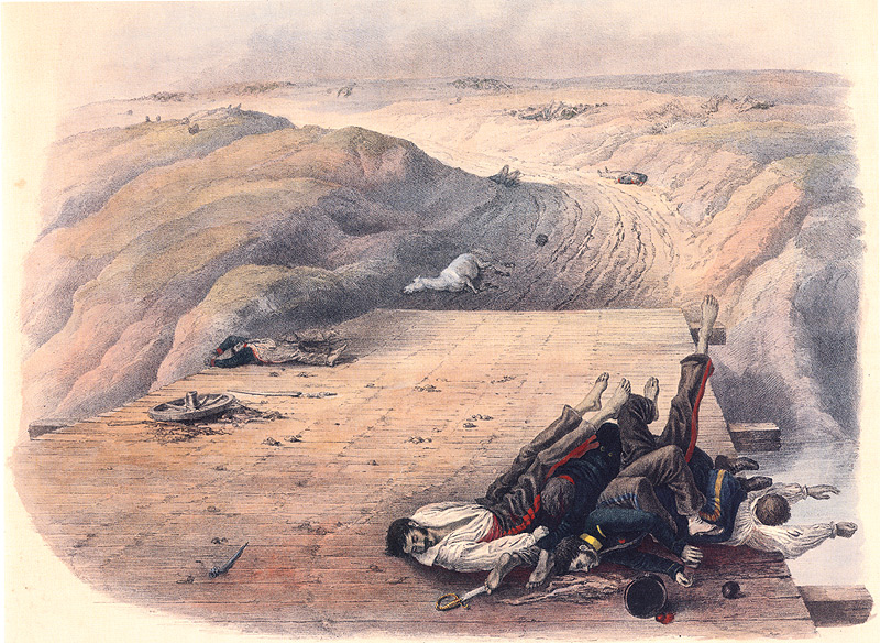 The bodies of dead soldiers of Napoleon's Grand Armée left on the bridge over the River Kolocha after the Battle of Borodino, 1812. Image taken from Blaetter aus meinem Portefeuille, im Laufe des Feldzugs 1812 in Russland an Ort und Stelle gezeichnet von C. W. von Faber du Faur und mit erlaeuternden Andeutungen begleitet von F. von K-Feuilles extraites de mon portefeuille esquisses en Russie par C. G. de Faber du Faur, accompagnées de notes explicatives par F. de K. Germ. and Fr. Originally published/produced in Stuttgart, 1831-43.